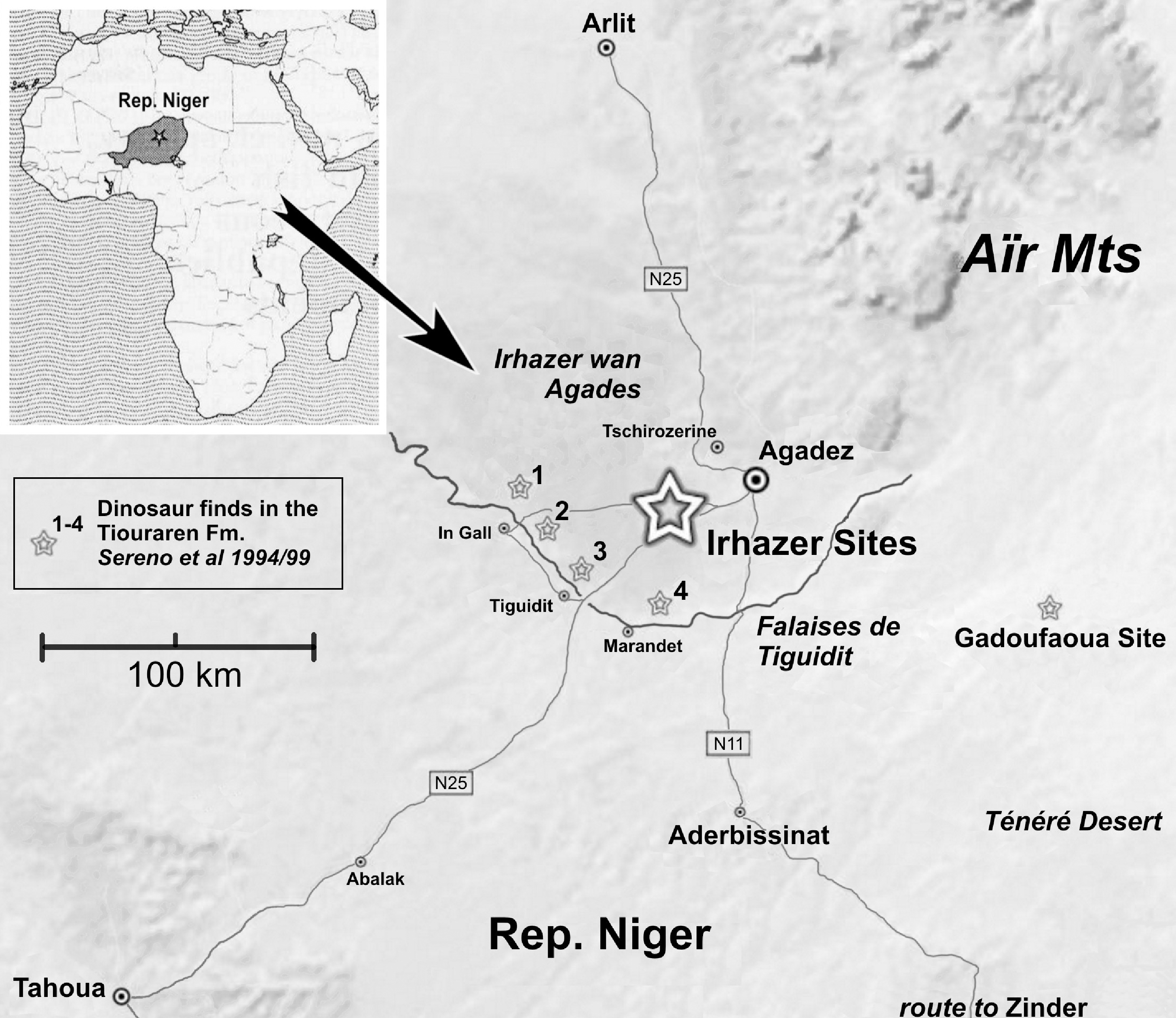 Map of dinosaur localities in the vicinity of Agadez, Rep. Niger. Generated with GoogleEarth MapMaker Utility 2009.